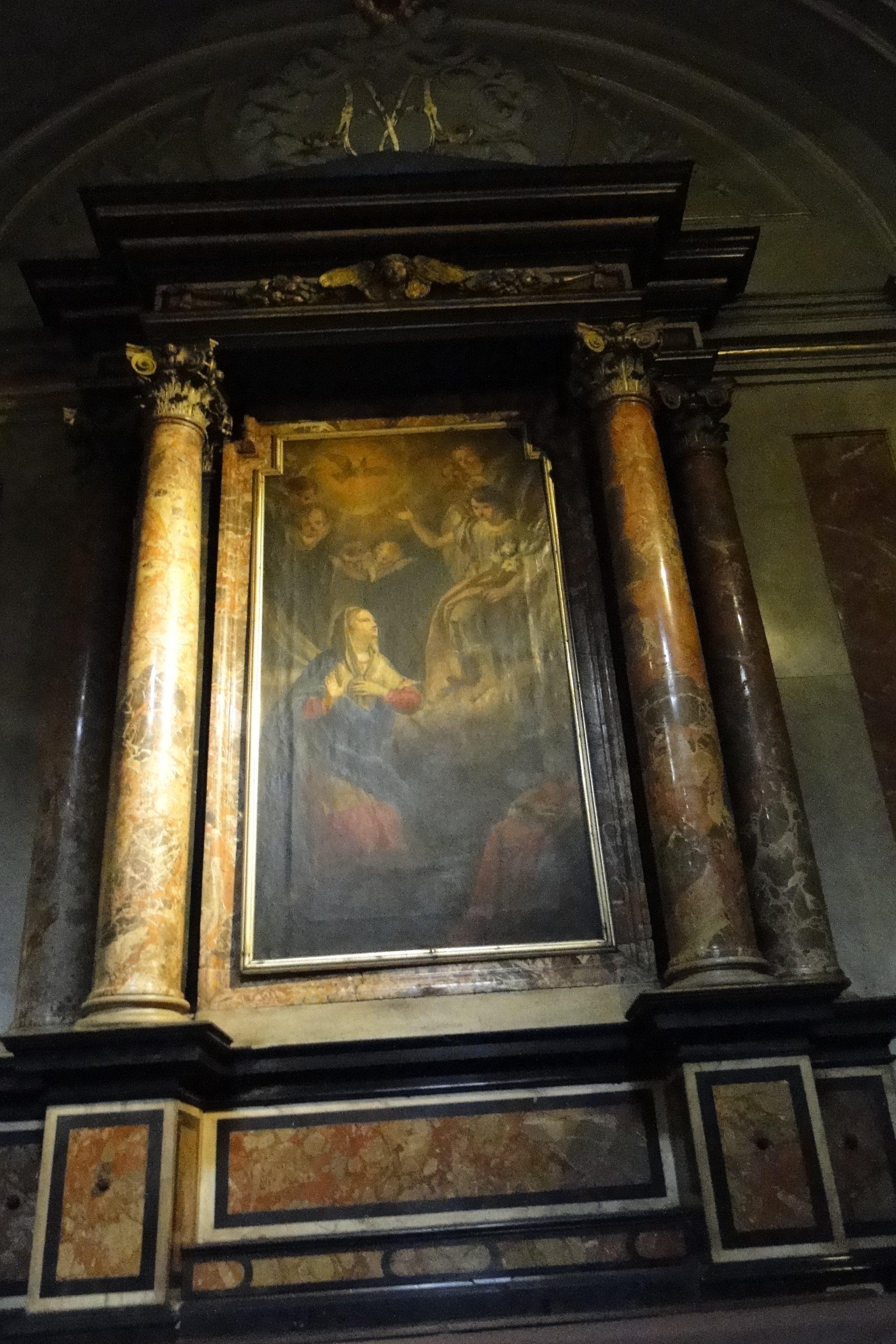 G.A.Molineri: Annunciation - Crurch of St, Francis from Assisi-Turin (Italy)